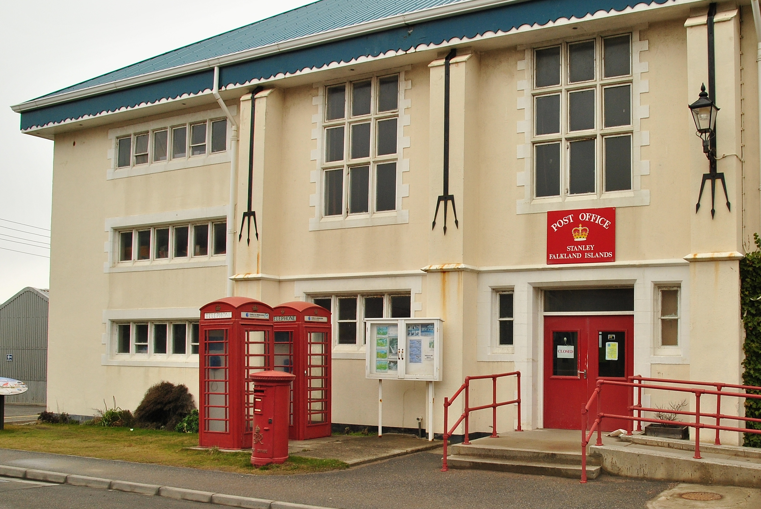 Stanley Post office complete with red phone boxes and a 'GR' post box.